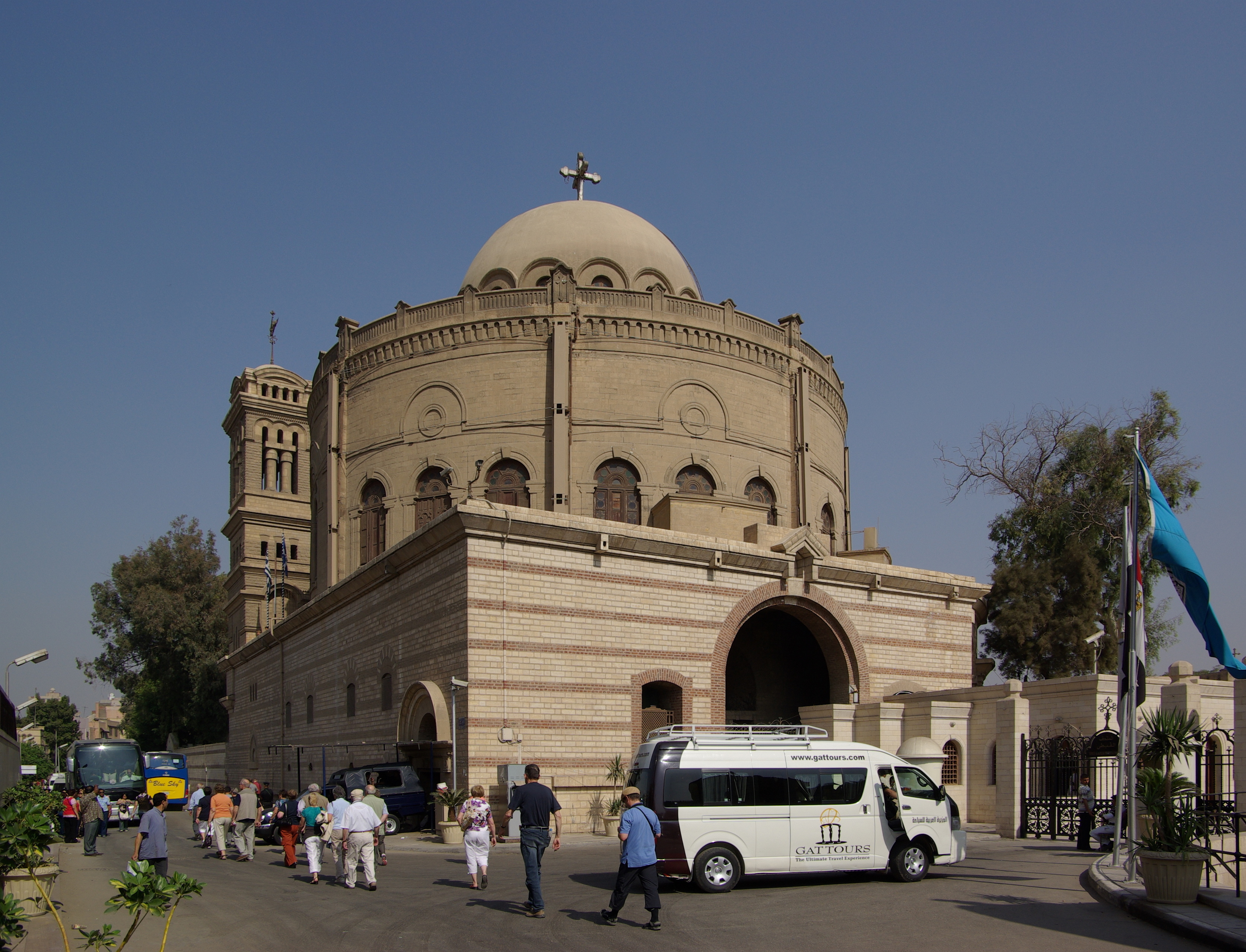 Cairo, St. George church